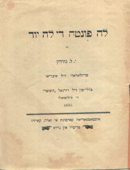 Punta del La Yod - Booklet in Ladino by Y L Gordon. Jerusalem 1906